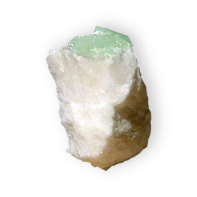 These mineral images are free to use how you wish.